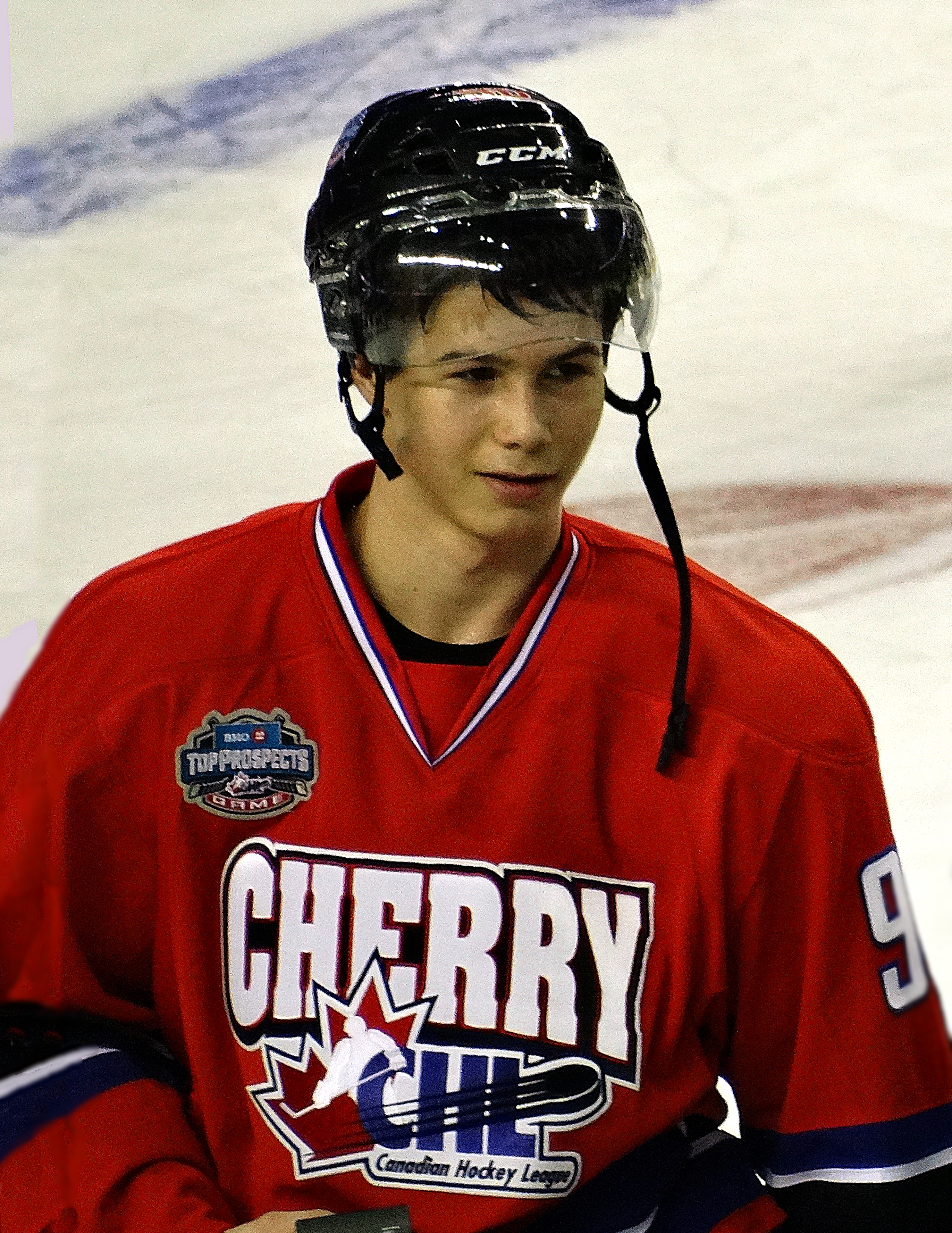 Nikolay Goldobin, Russian ice hockey right winger at the CHL / NHL Top Prospects game